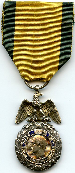 Military Medal, 2nd Empire variant 1852-1870 (France)